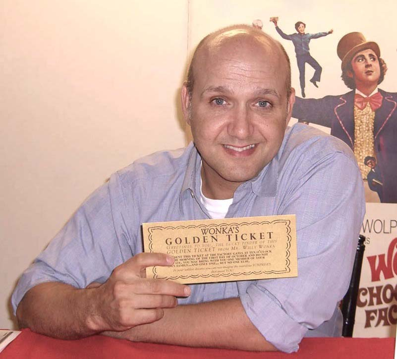 Actor Paris Themmen at the Big Apple Convention in Manhattan, October 1, 2010. Photo by Luigi Novi. This photo may be used, modified and published for any purpose, only if a easily visible credit to the photographer is placed near the photo in each instance in which it is used. (See licensing information below.) Publication of this photo without this proper attribution constitutes copyright infringement. For more information on my photos, you can contact me here.